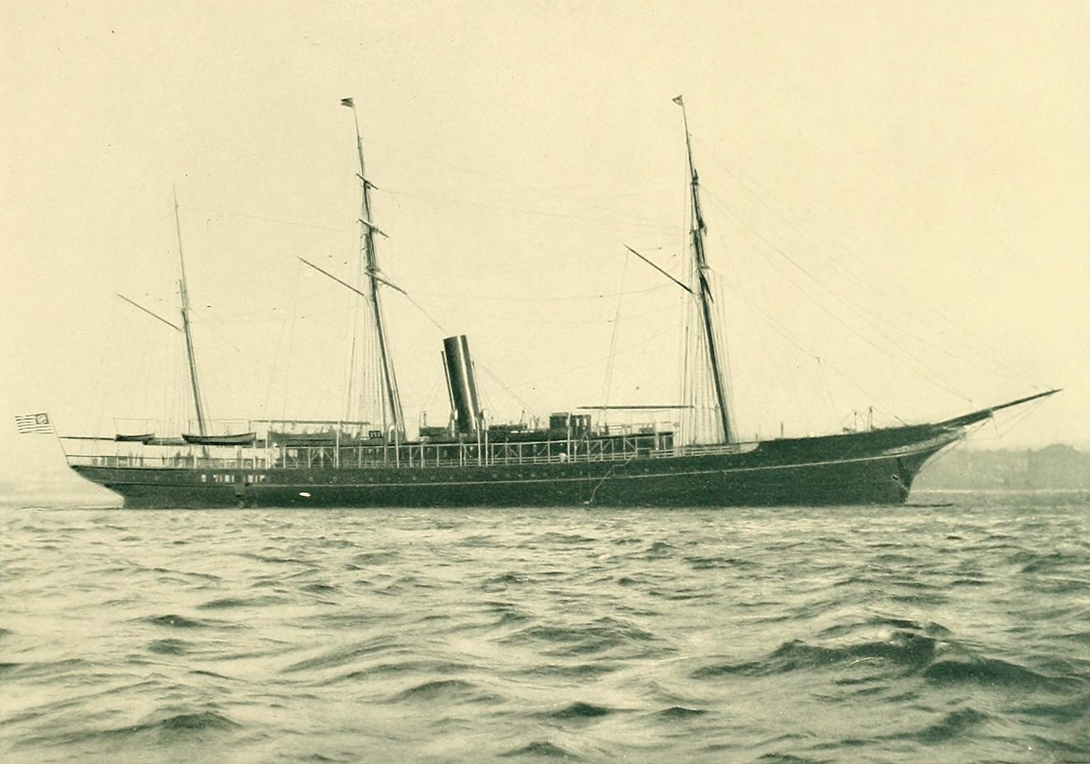 Steam yacht Niagara, owned by Mr. Howard Gould, of New York. Launched at the yards of the Harlan & Hollingsworth Co., at Wilmington, Delaware, February 19, 1898. Bark rigged, and modelled on lines by Captain W. G. Shackford, her commander, late of the Pacific Mail Co.'s fleet. New York Yacht Club.